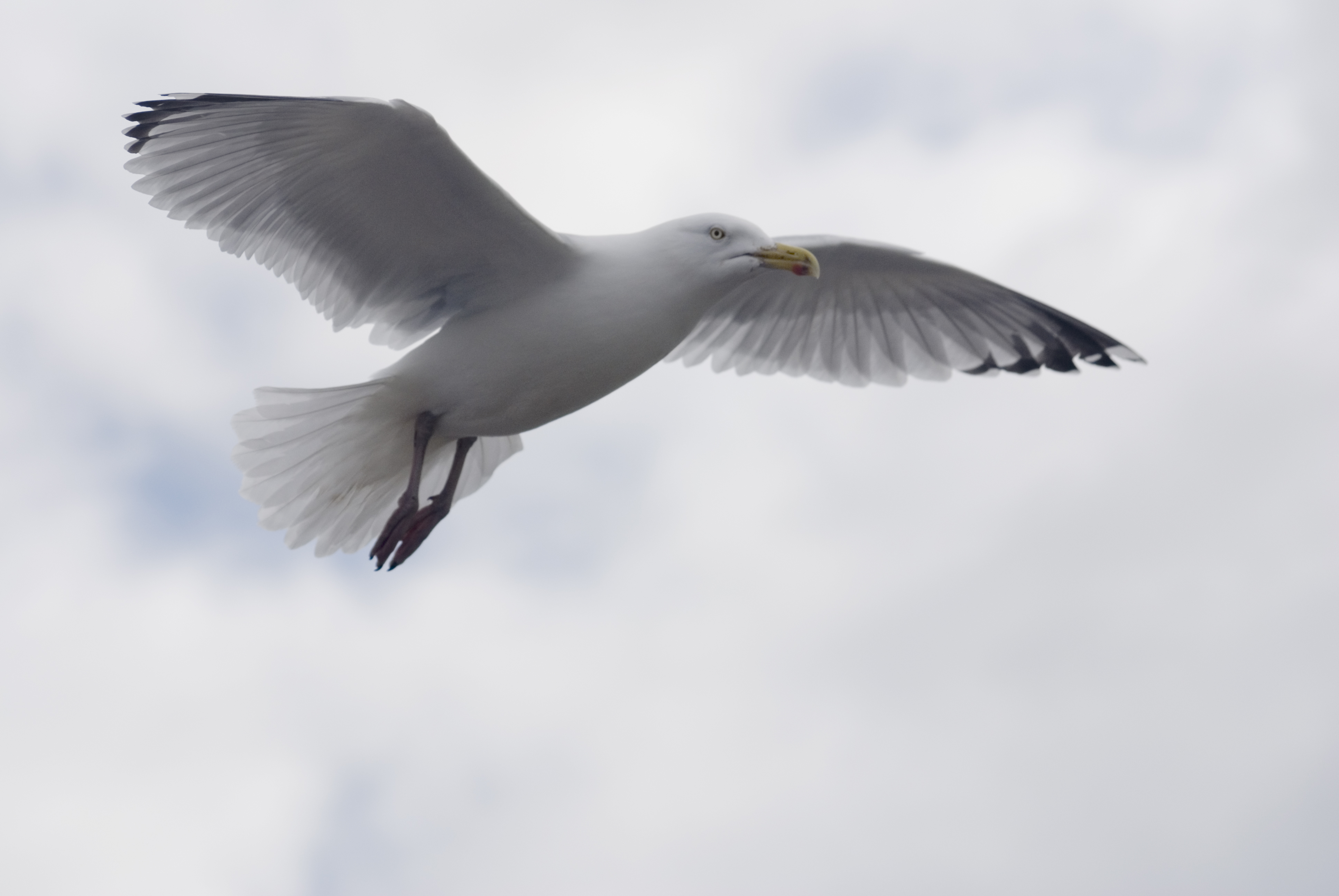 An image of a Herring Gull taken in Brighton, England in early 2007